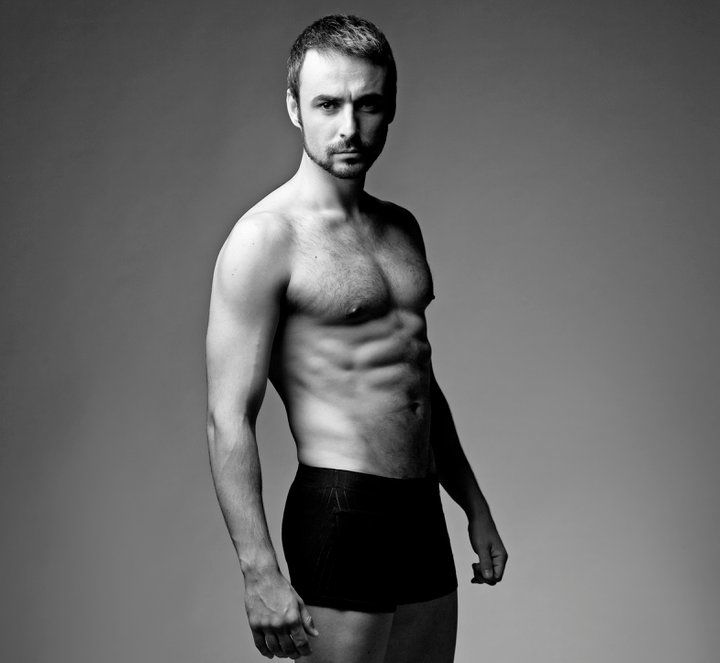 Actor David Vega always has wanted to work in a film about Ancient Rome.